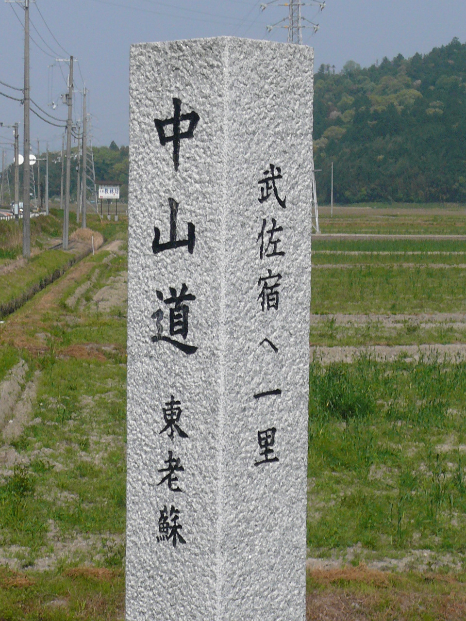 A picture taken while walking along the Nakasendo. This one was near Musa-juku